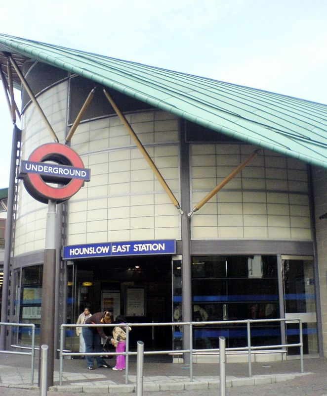 The exterior of Hounslow East London Underground station in Hounslow, West London